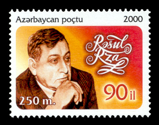 Stamp of Azerbaijan